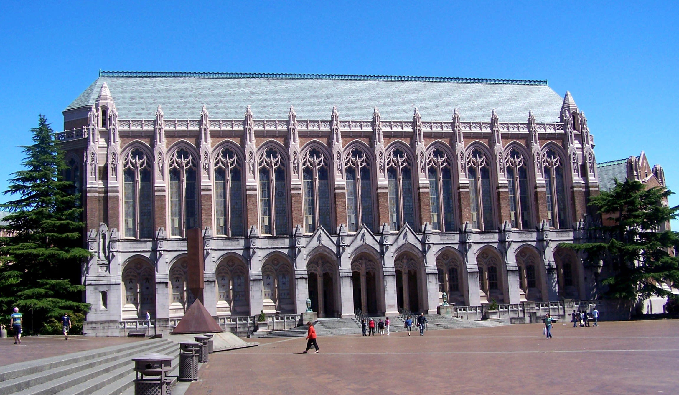 Suzzallo Library, central library of the University of Washington in Seattle